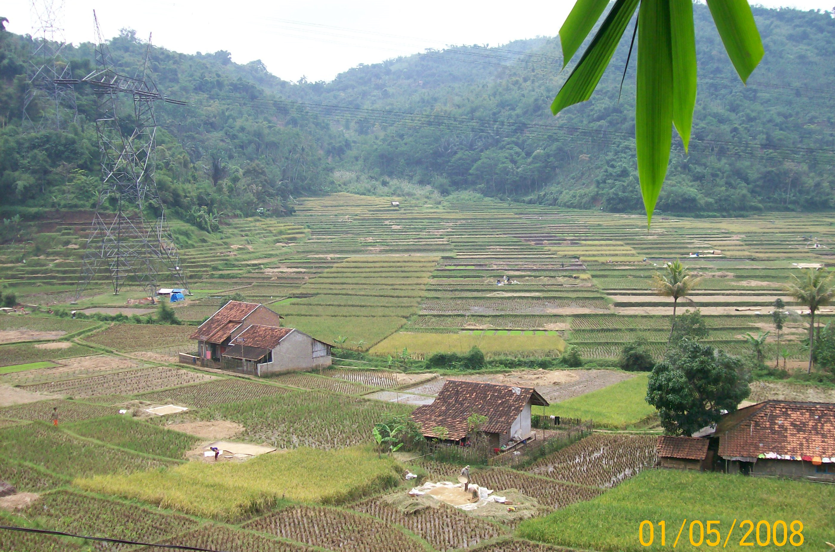 soreang-ciwidey